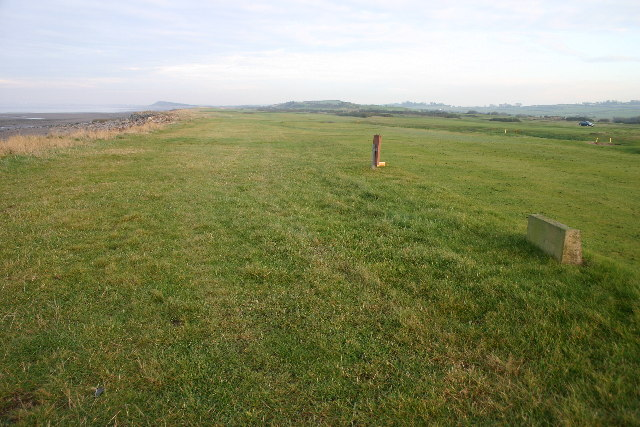 Maryport Golf Course. Sea defences here consist of building rubble.